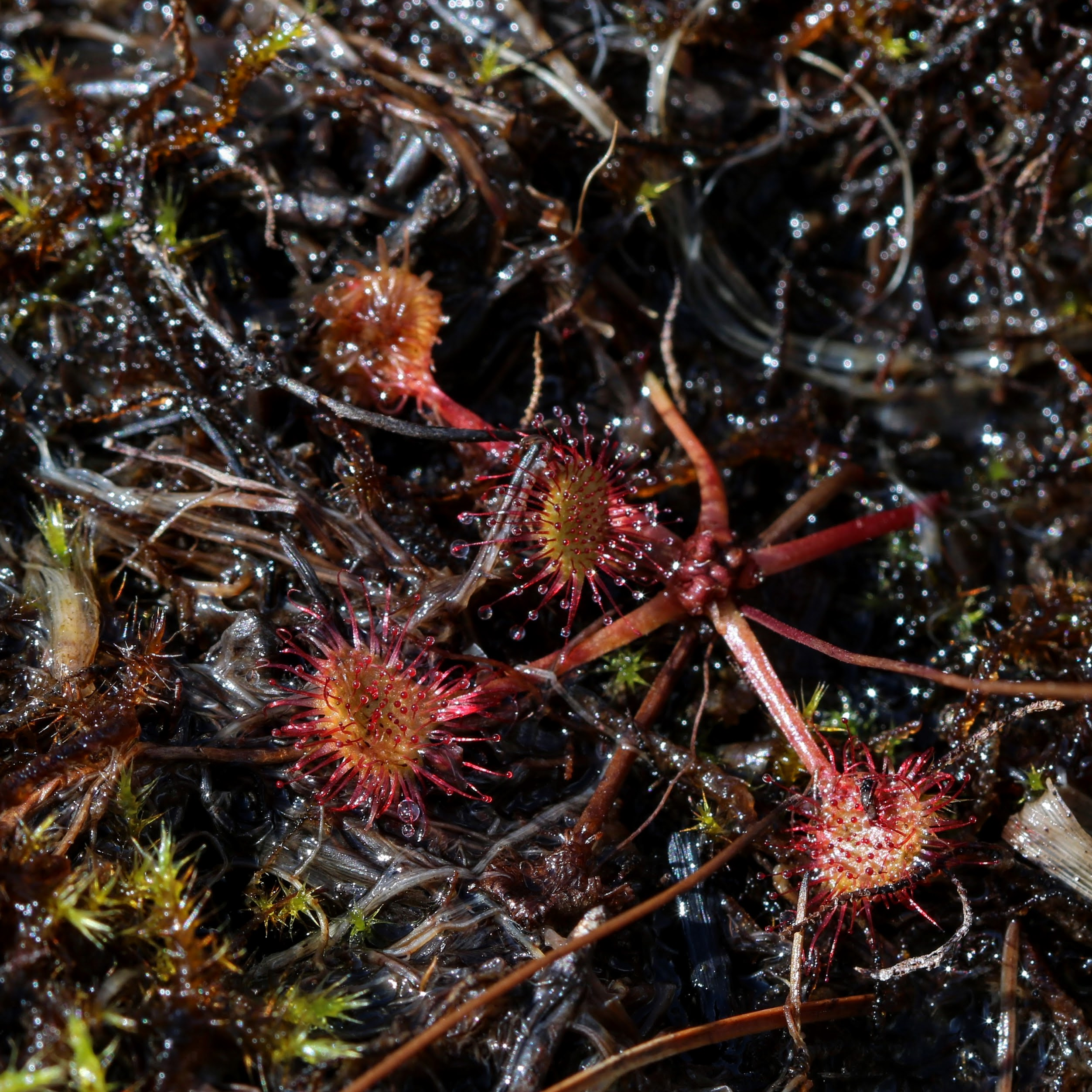 Drosera rotundifolia specimen from Paluaccio di Oga (Sondrio, Italy)